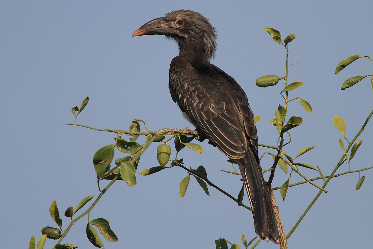 A Hemprich's Hornbill at Baringo Cliffs, Kenya.